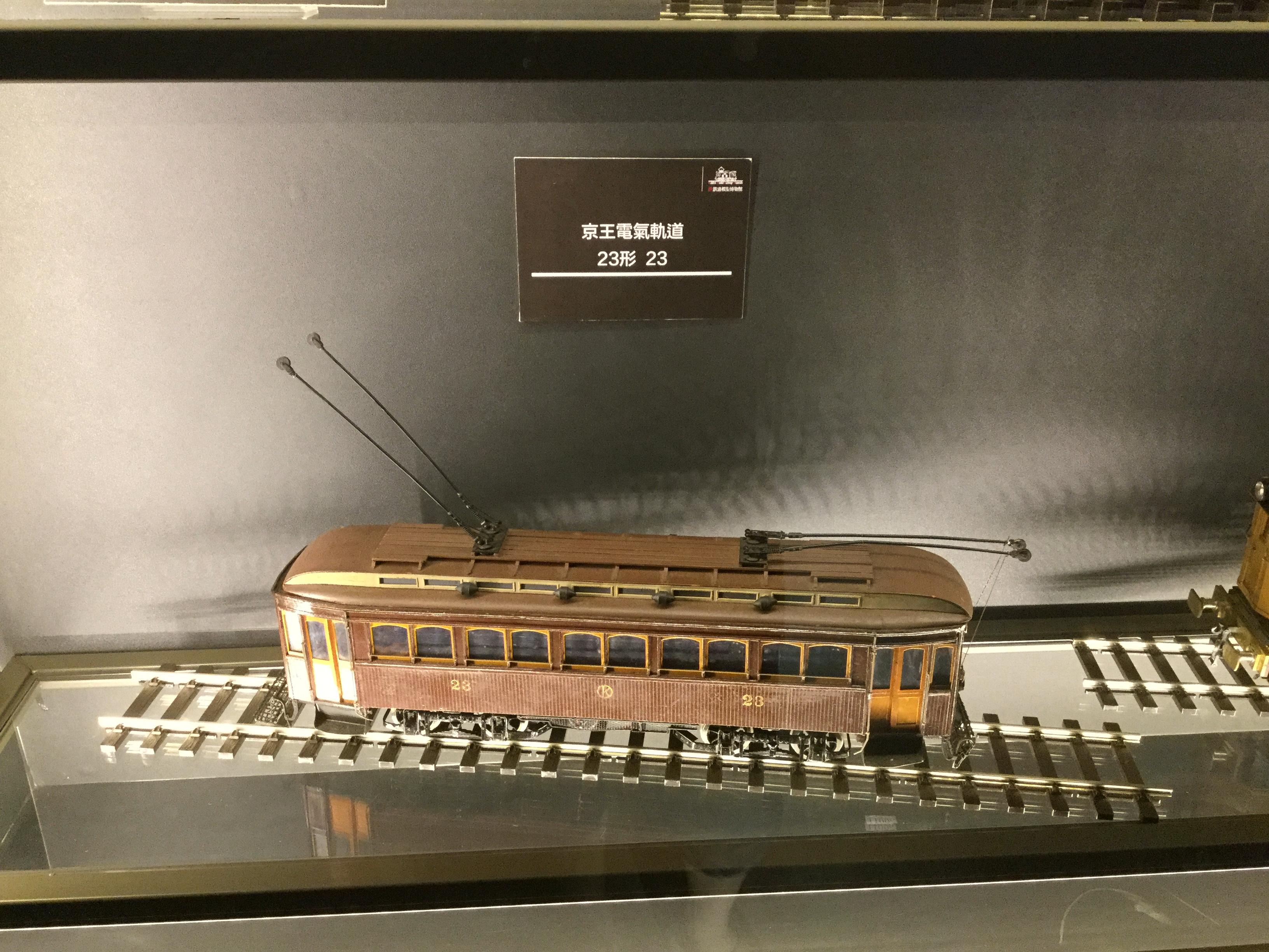 model of Keio Electric Tramway 23 in Hamasen Museum of Taiwan Railway (Kaohsiung) owned by Hara Model Railway Museum, Yokohama, Japan.